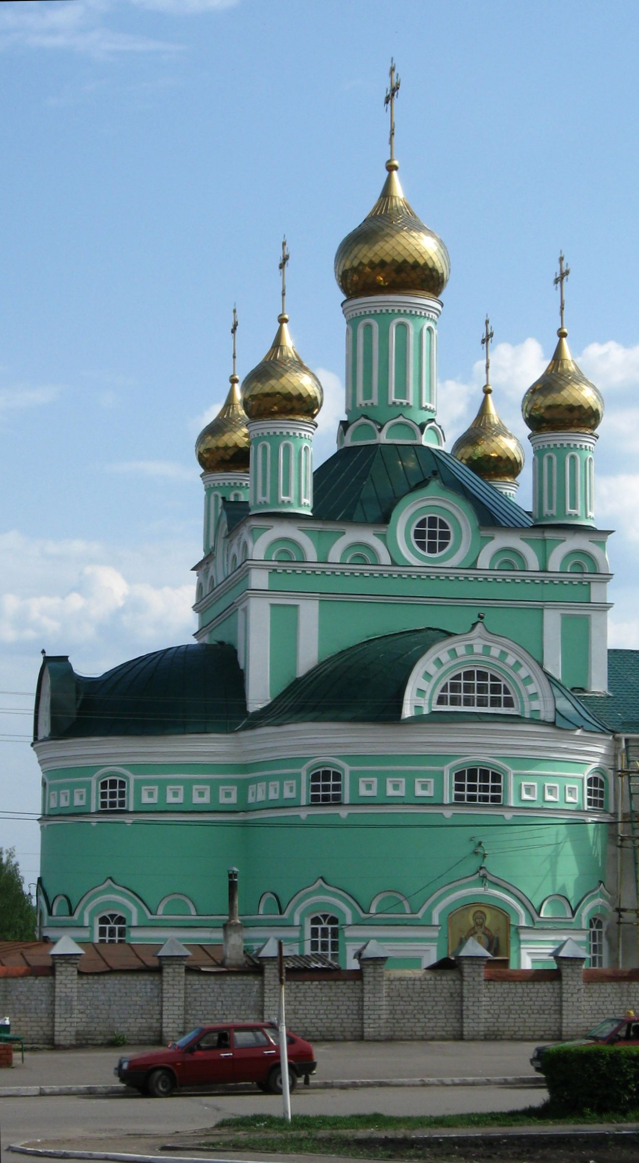 Trinity Church in Shchigry